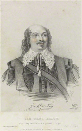 Actor George Bartley (1782?–1858) as Sir Toby Belch in Shakespeare's Twelfth Night.